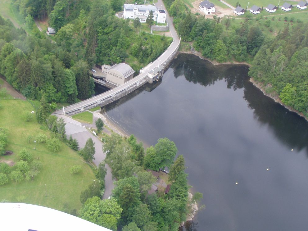 Water dam Pastviny